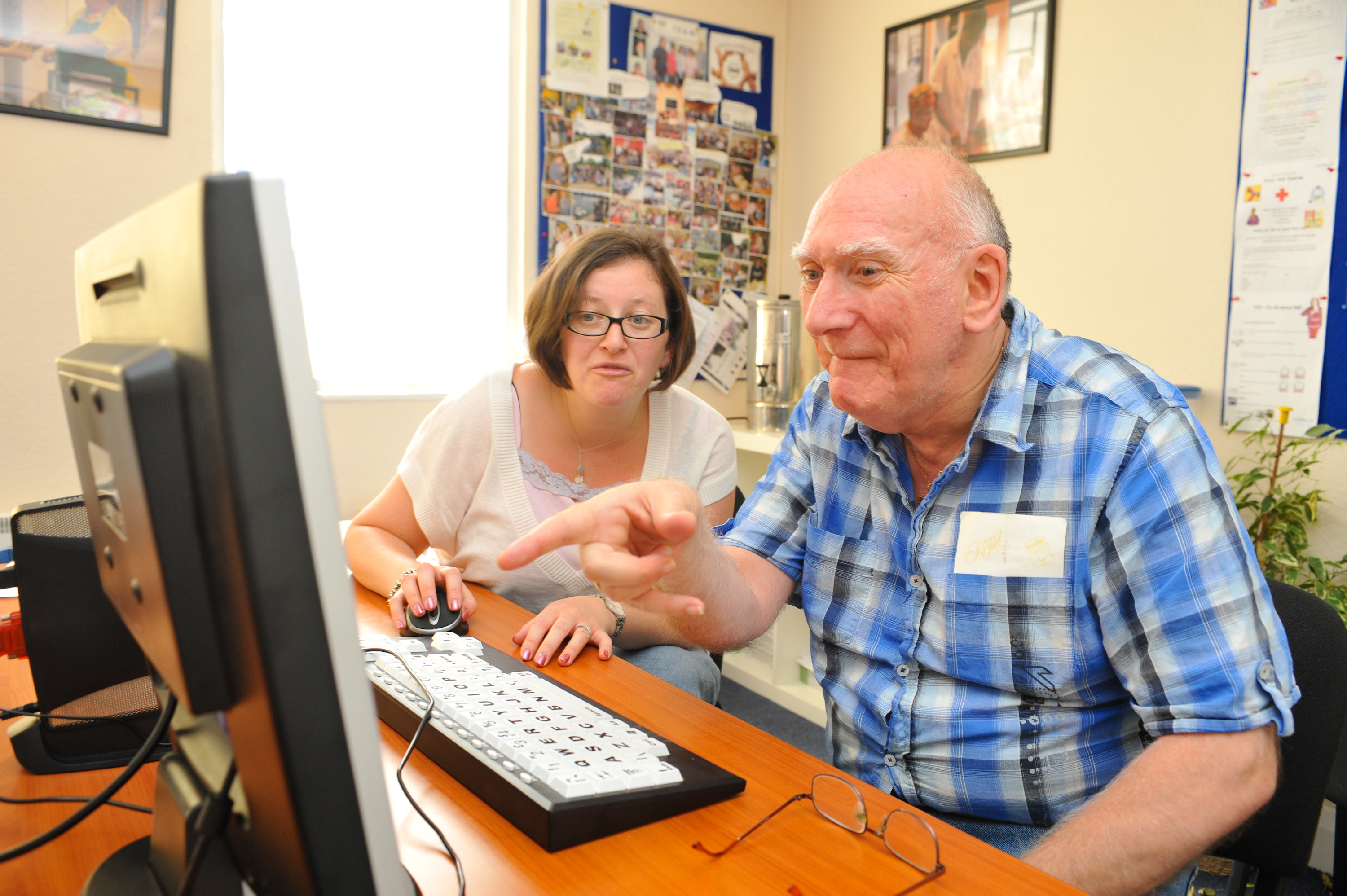 A Norwood service user is given tuition on a computer.